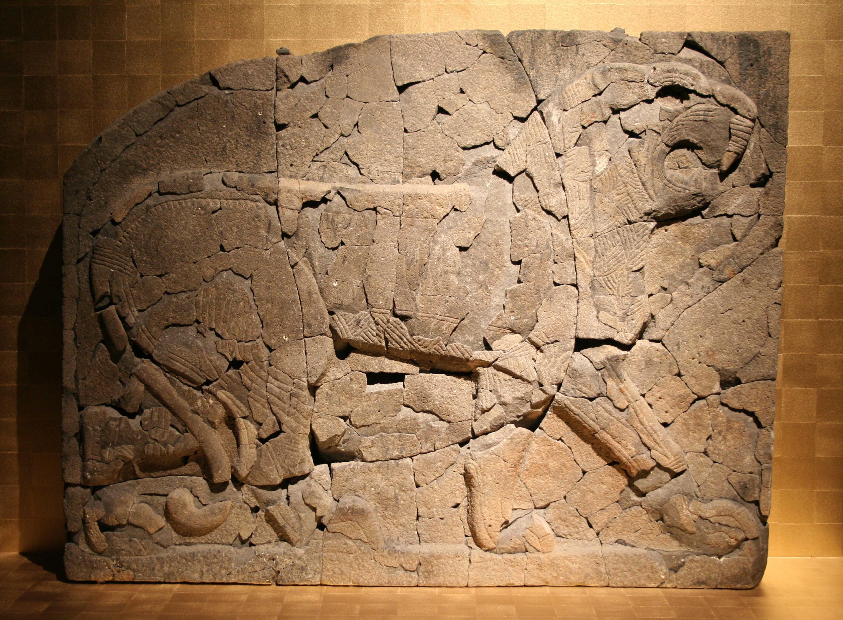 Exhibition "Die geretteten Götter aus dem Palast vom Tell Halaf" (The rescued gods from the palace of Tell Halaf), Pergamon Museum, Berlin